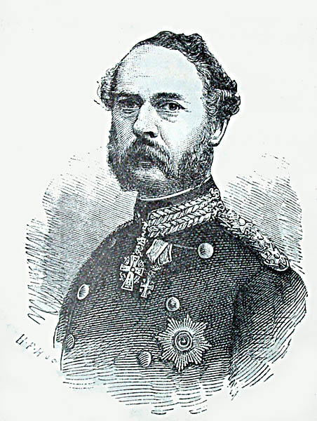 Christian 9 of Denmark